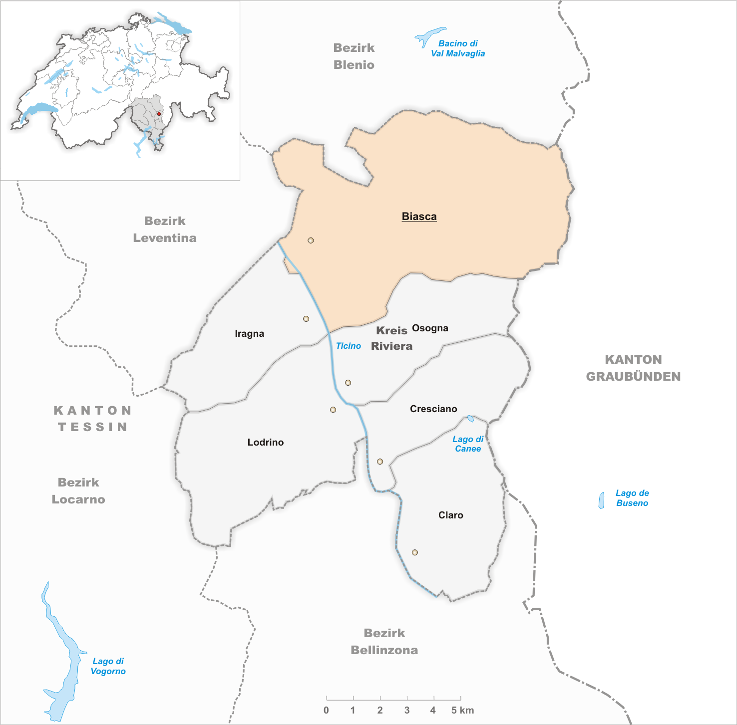 Municipality Biasca